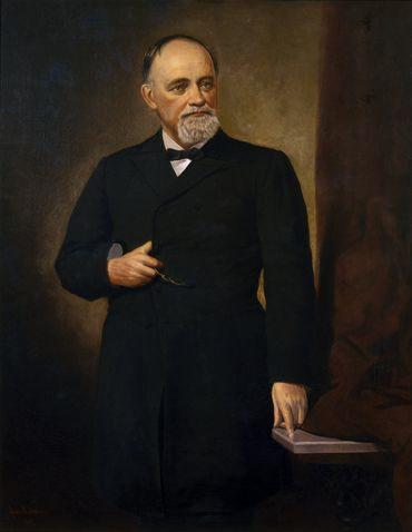 Portrait of John S. Pillsbury